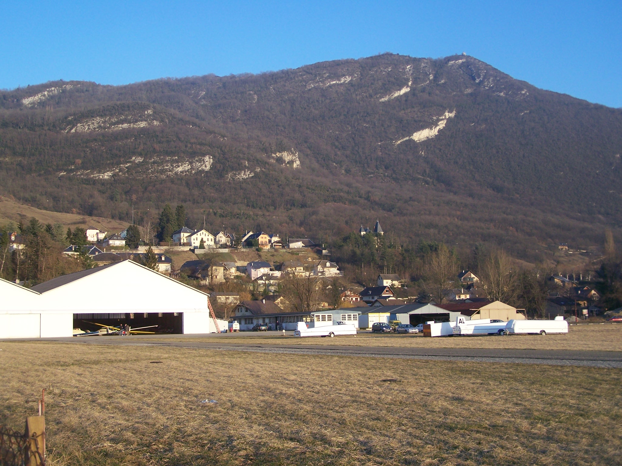 Hangar of Challes-les-Eaux aerodrome near Chambéry in Savoie, France.